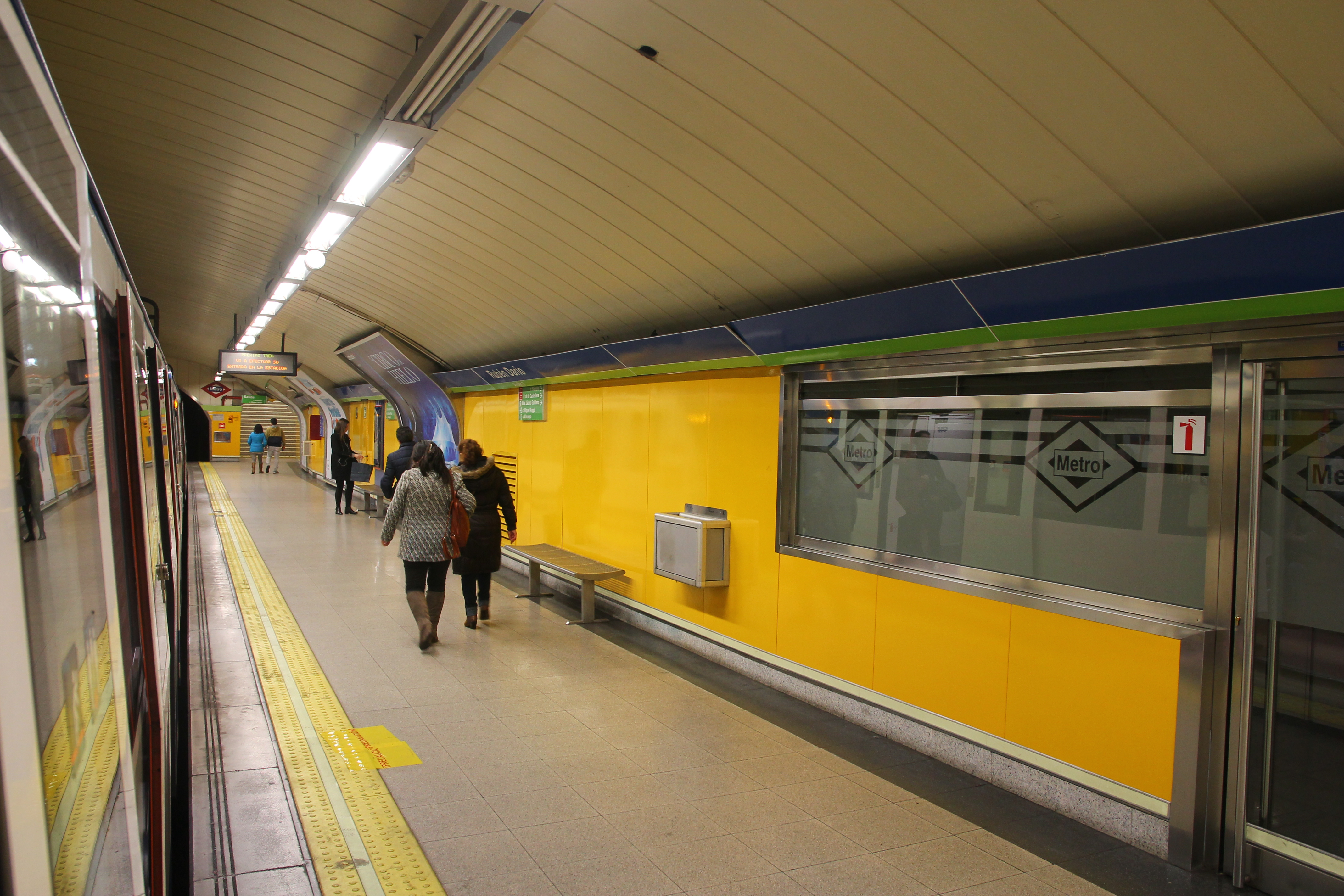 Estación de Rubén Darío